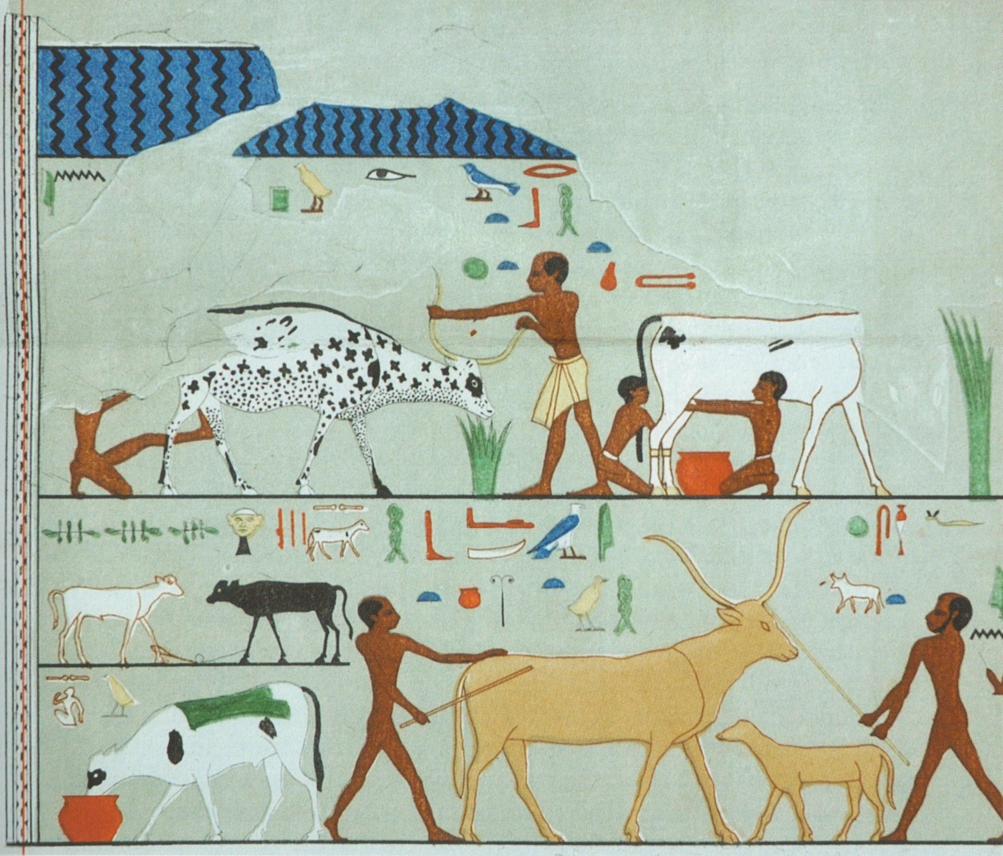 Scenes painted on white plaster. The mastaba of the official and priest Fetekti. Fifth Dynasty. Abusir necropolis, Egypt.